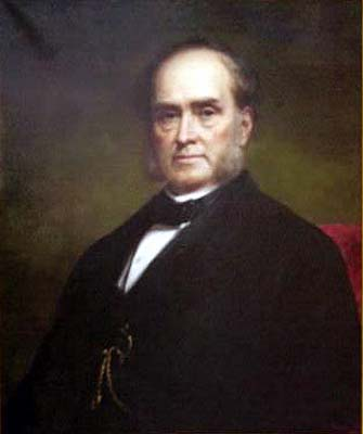 Ambrose C. Kingsland, New York City Mayor and prominent businessman.